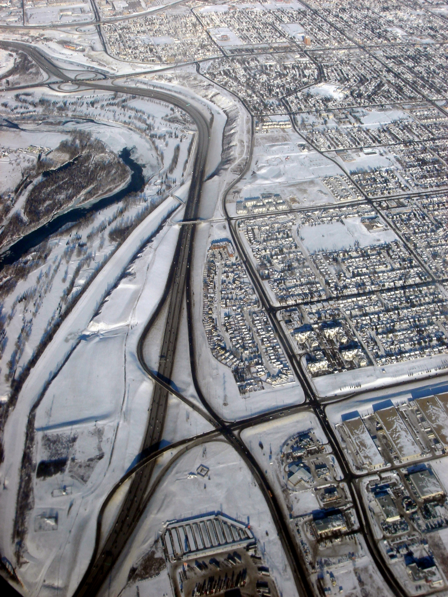 Deerfoot Trail at the interchange with Peigan Trail in Calgary, Alberta, looking north